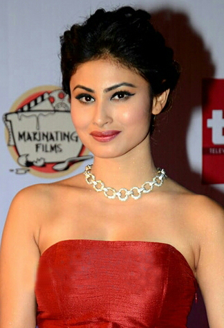 Mouni Roy at TSA